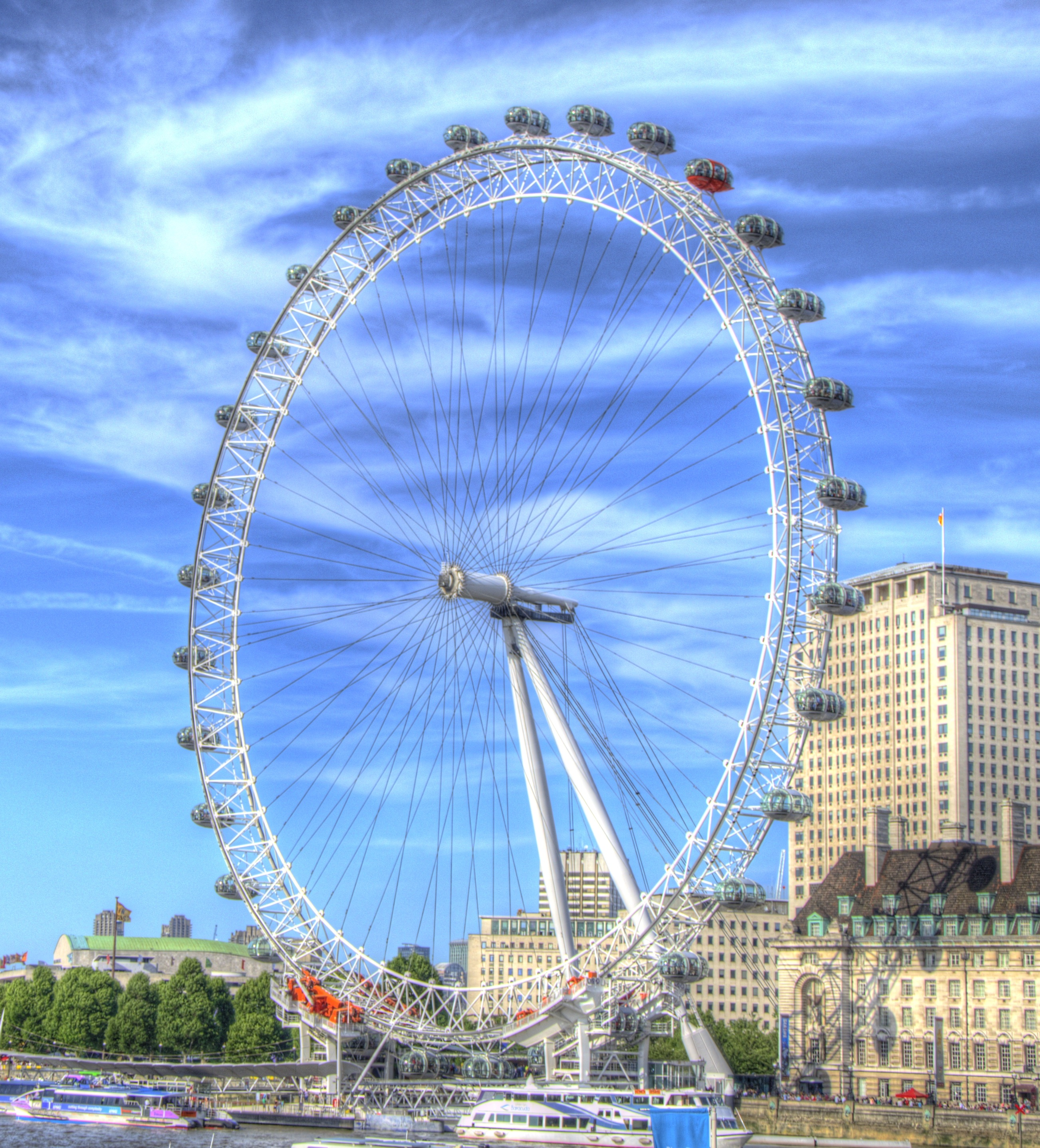 London Eye, July 2013.